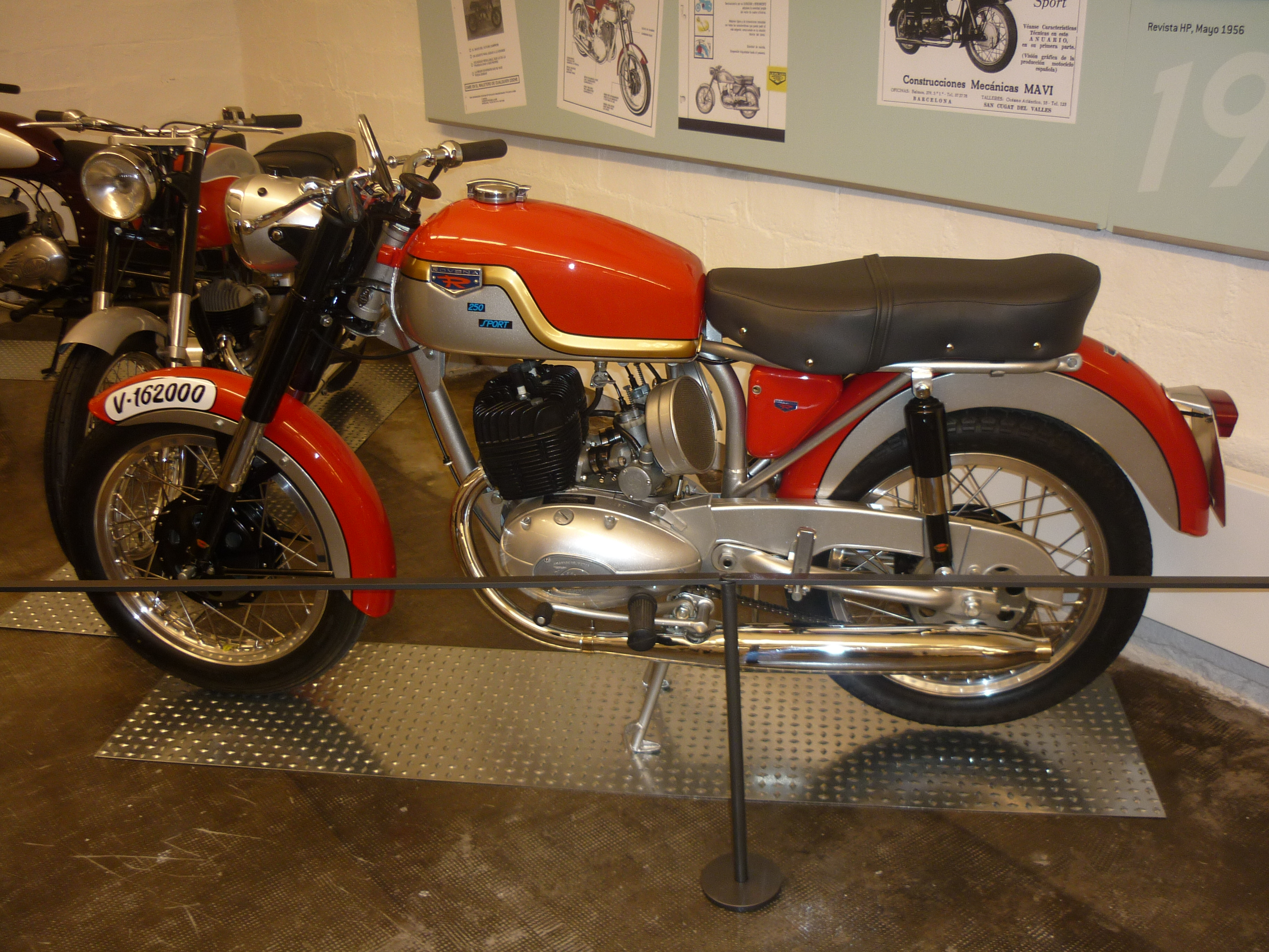 Rovena Sport 250cc (1963) with an Hispano Villiers engine. Museu de la Moto de Barcelona (Catalonia).